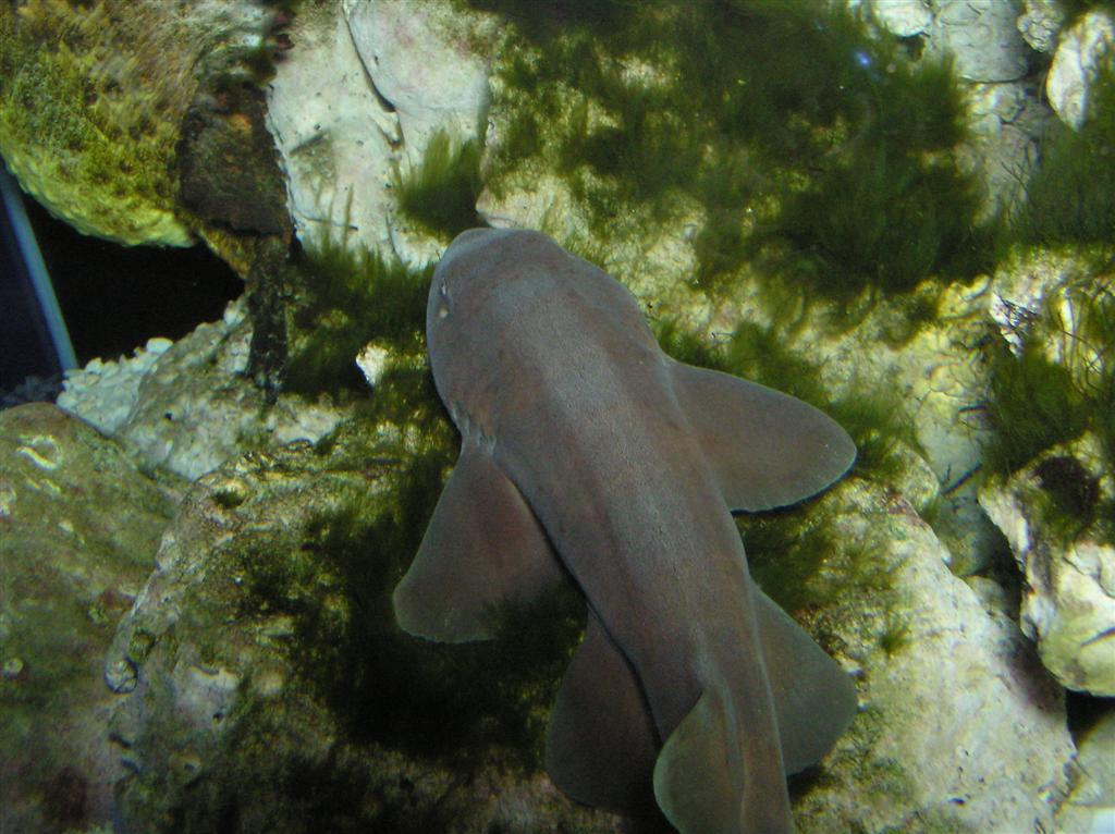 Grey bamboo shark (Chiloscyllium griseum) off Malaysia